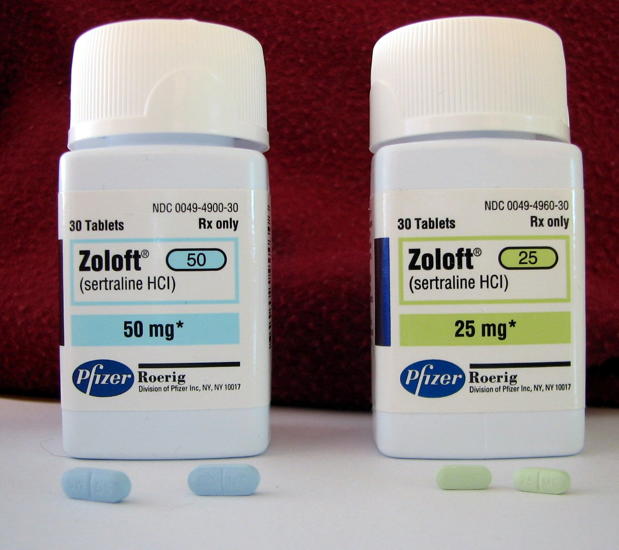 Zoloft